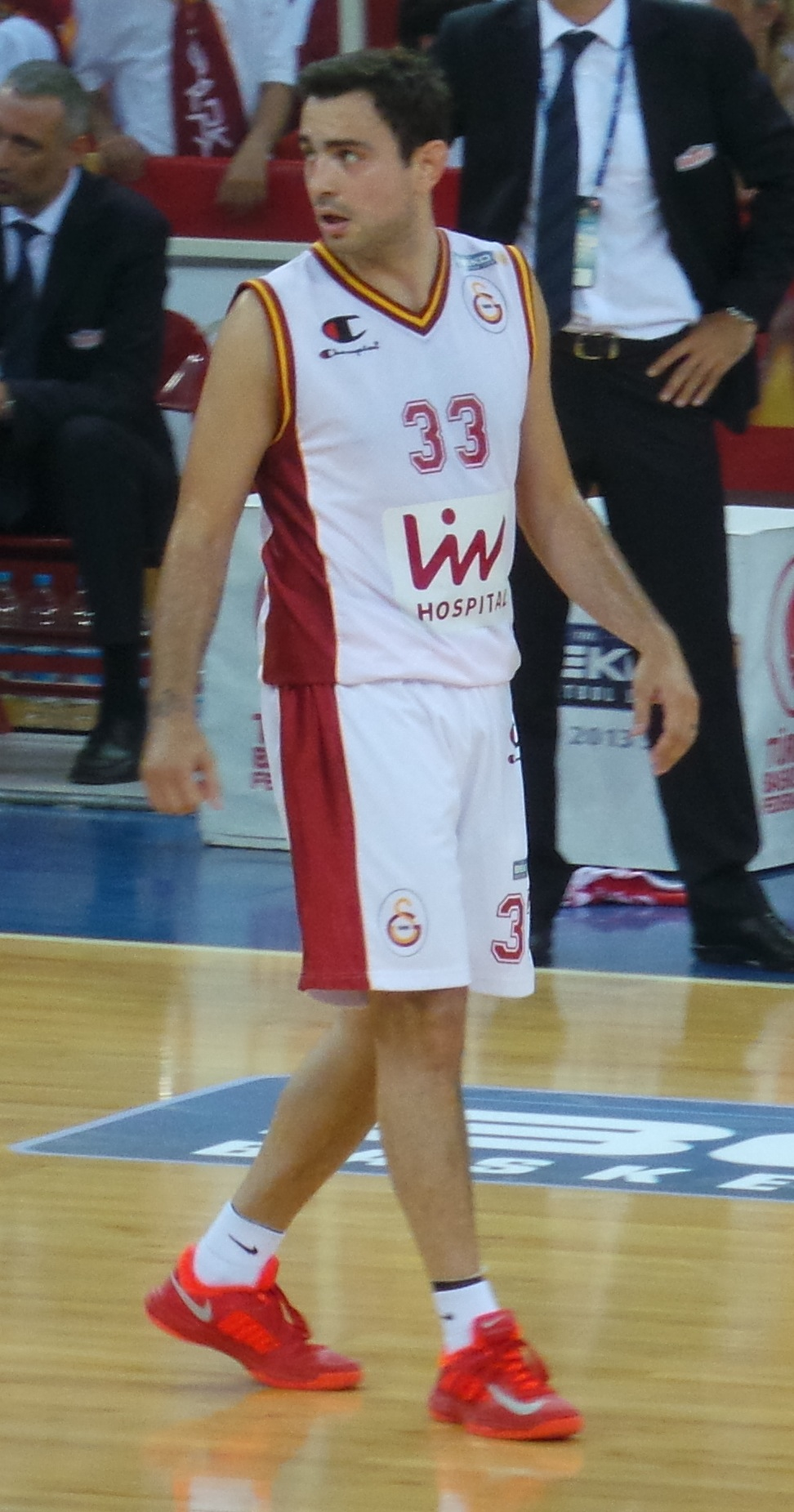 Ender